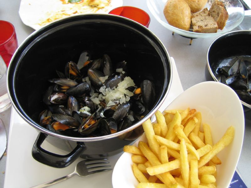 Mussels cooked in broth with fries.Moules Frites